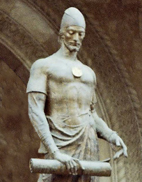 Shota Rustaveli, poet